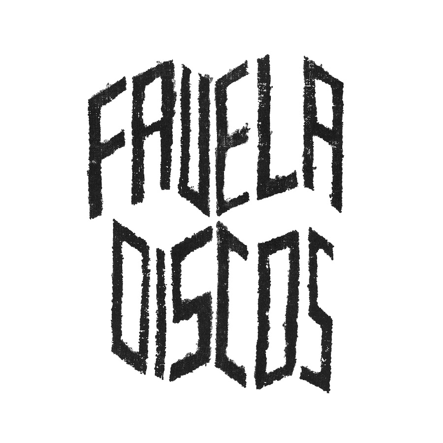 logo favela